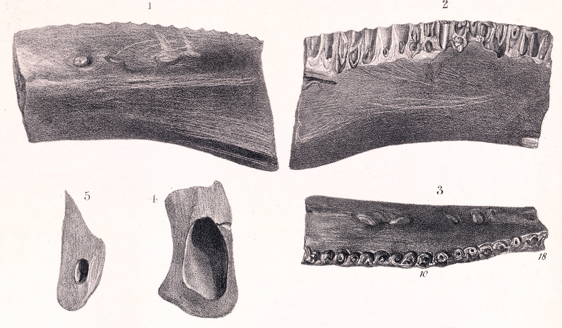 Fig. 1. Outside of a portion of jaw. Fig. 2. Inside of the same portion of jaw. Fig. 3. Upper view of the same. Fig. 4. The hinder fractured end of the same. Fig. 5. The fore fractured end of the same. From the Wealden of Tilgate Forest, Sussex. In the British Museum.